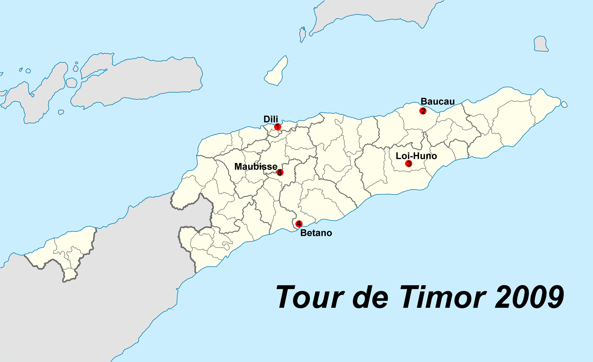 Stops of the Tour de Timor 2009